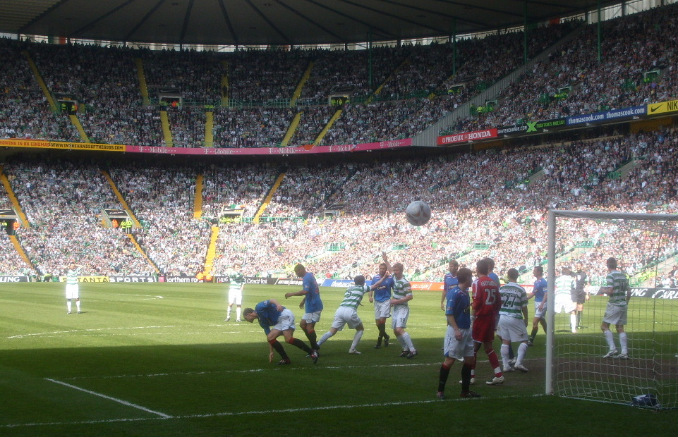 Celtic and Rangers clash 27th April 2008